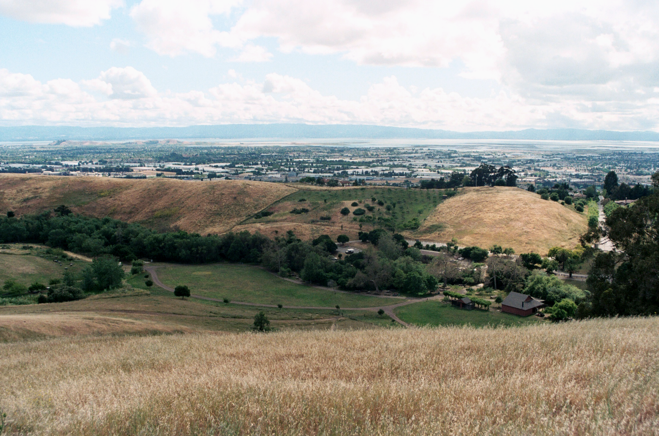 Garin Regional Park — in Hayward, the East Bay, California. Part of the East Bay Regional Parks District. Photo ©2011, Reid Sullivan, taken on a Canon Eos630